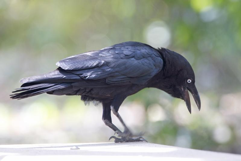 Torresian Crow Corvus orru Corvus orru cecilae 9th. August 2010 Northern Territory, Australia Distribution: 690V9950